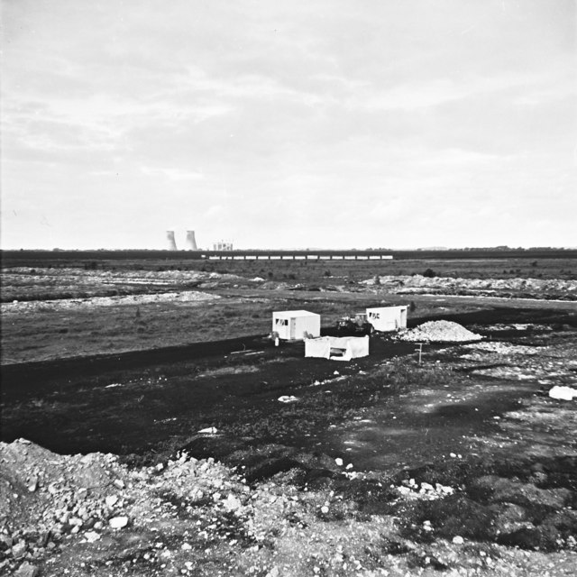 Lough Boora, Broughal, Co. Offaly This view, from the top of a large mound of material excavated from a silt pond, shows in foreground the huts of the National Museum's excavation of the mesolithic encampment at Louth Boora which at 6800-6500 BC is one of the earliest dated sites in Ireland. In middle distance, a Bord na Móna train carries milled peat. On the horizon is Ferbane power station, the first ESB peat-burning station, in operation from 1957 until 2001. Some efforts were made to preserve one of the cooling towers, e.g. as an observation platform, but it was demolished on 24th February 2002.